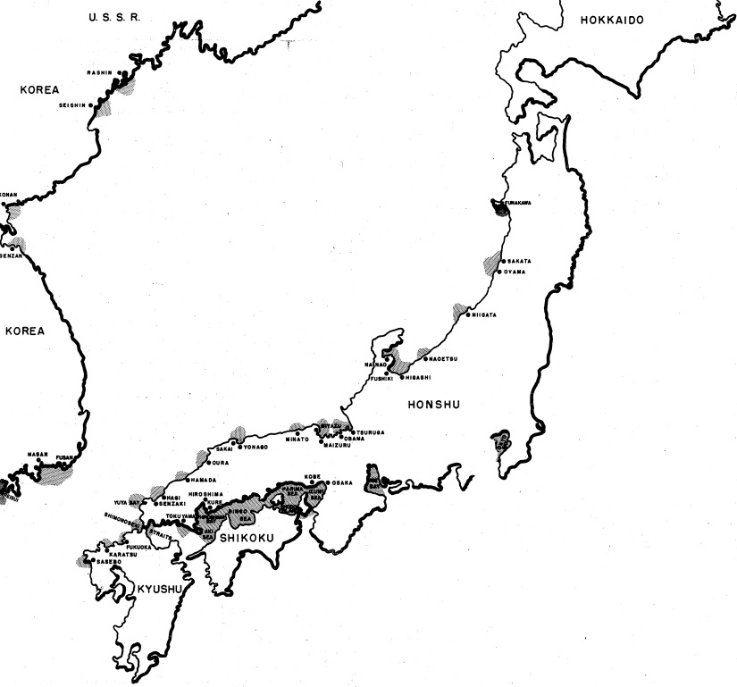 A map showing locations in the Japanese home islands mined by the United States 20th Air Force up to 31 July 1945